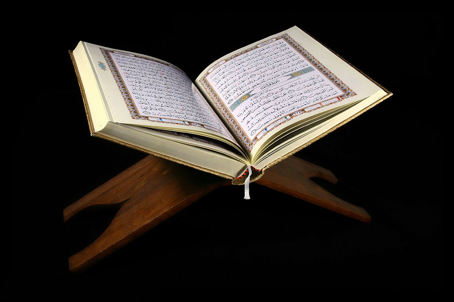 Qur'an and Rehal